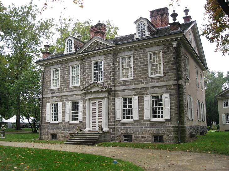 Right front of Cliveden (Benjamin Chew House) in Germantown, Philadelphia.